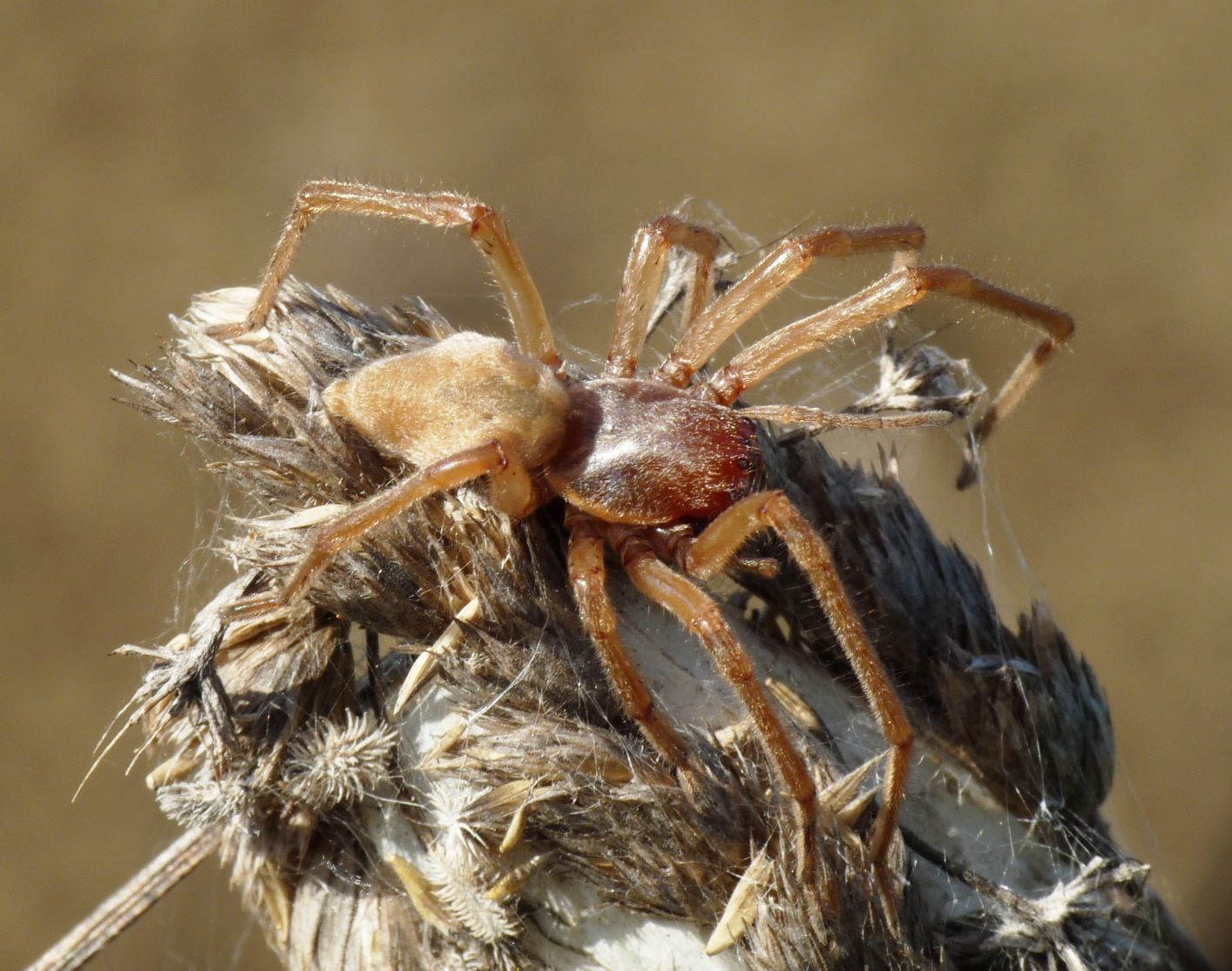 Spider Cheiracanthium punctorium, near Livorno, Tuscany, Italy